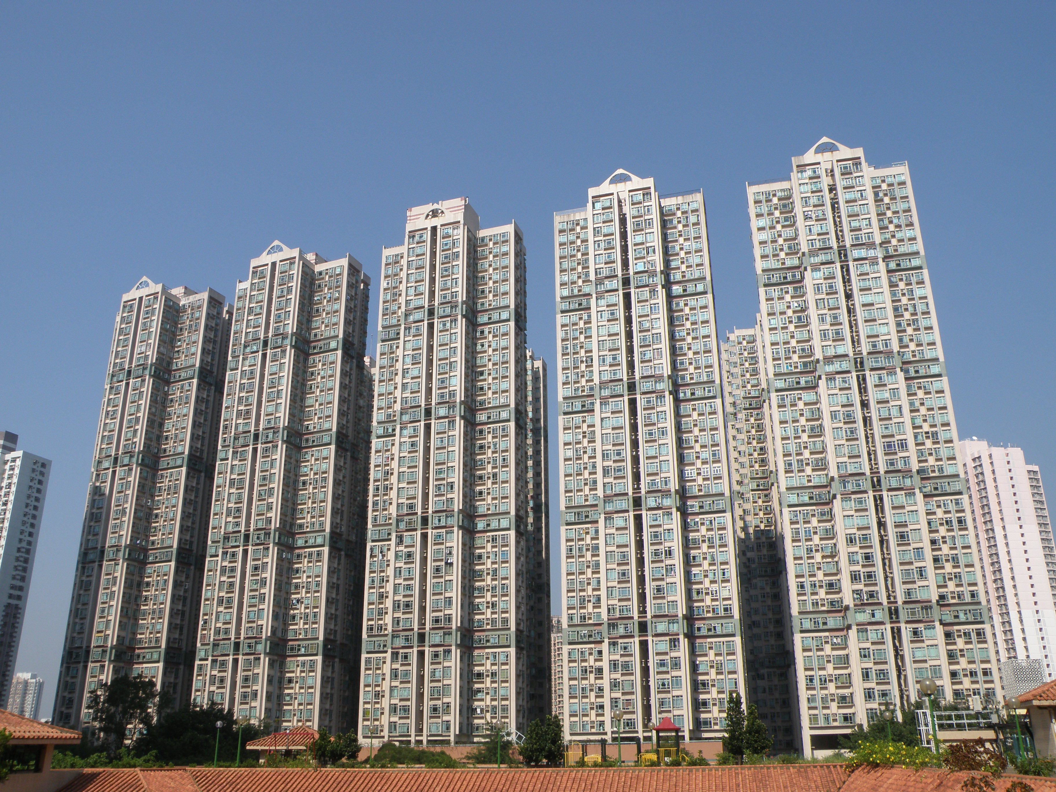 Flora Plaza in Fanling, Hong Kong.